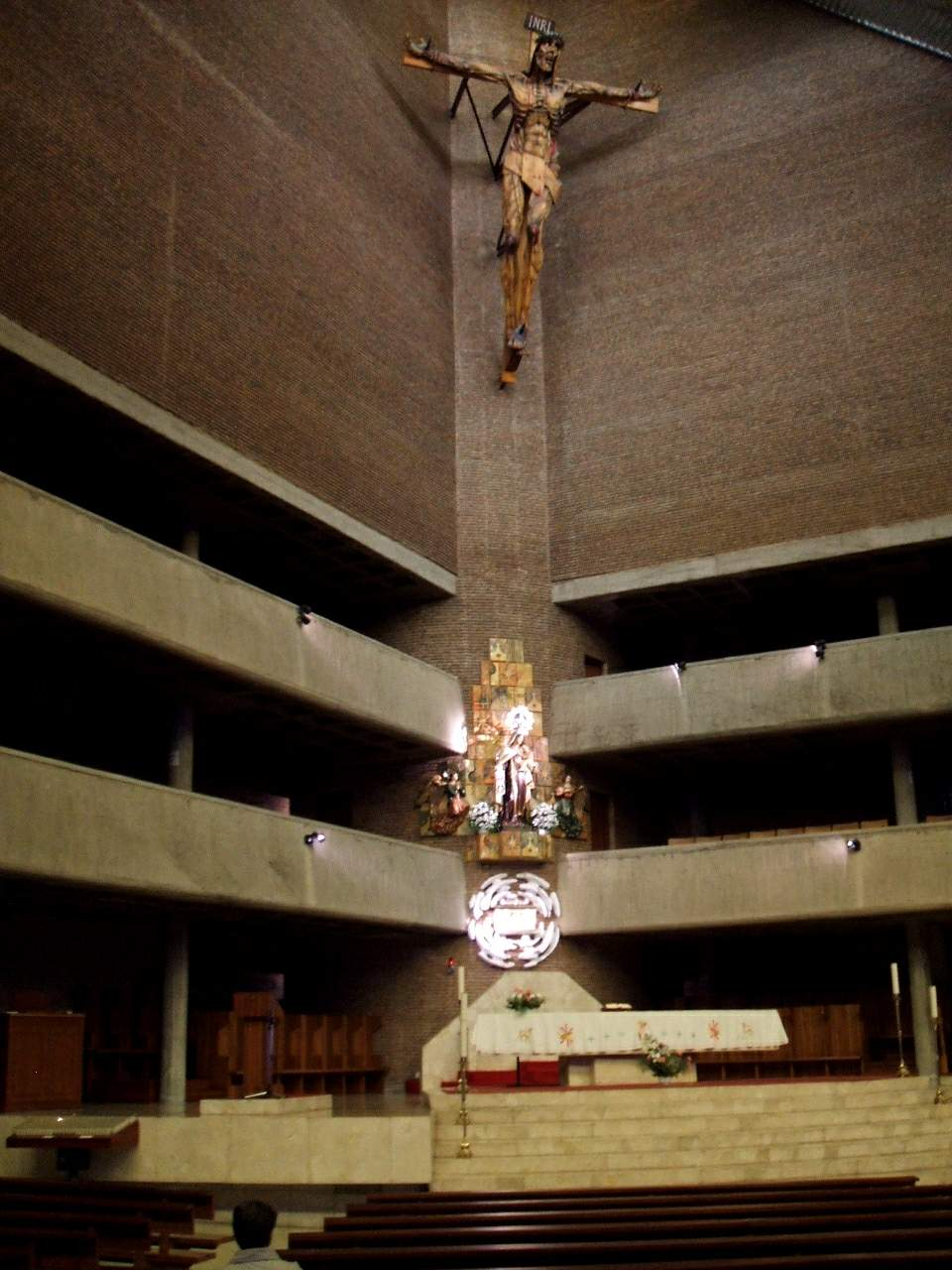 Iglesia del Carmen (PP Carmelitas Descalzos), en Burgos, Castilla y León, España